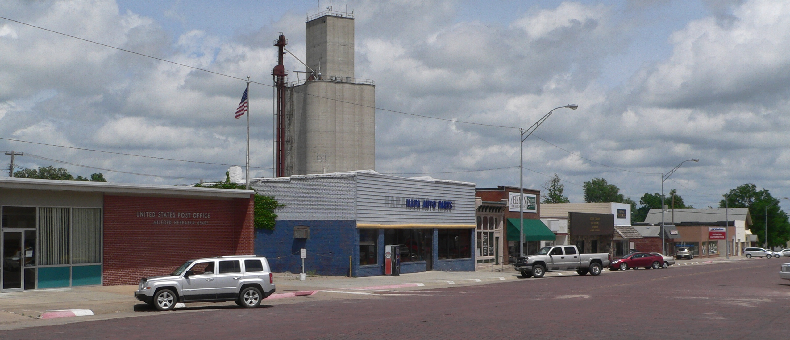 Downtown Milford, Nebraska: north side of First Street, looking northeast from about B Street.